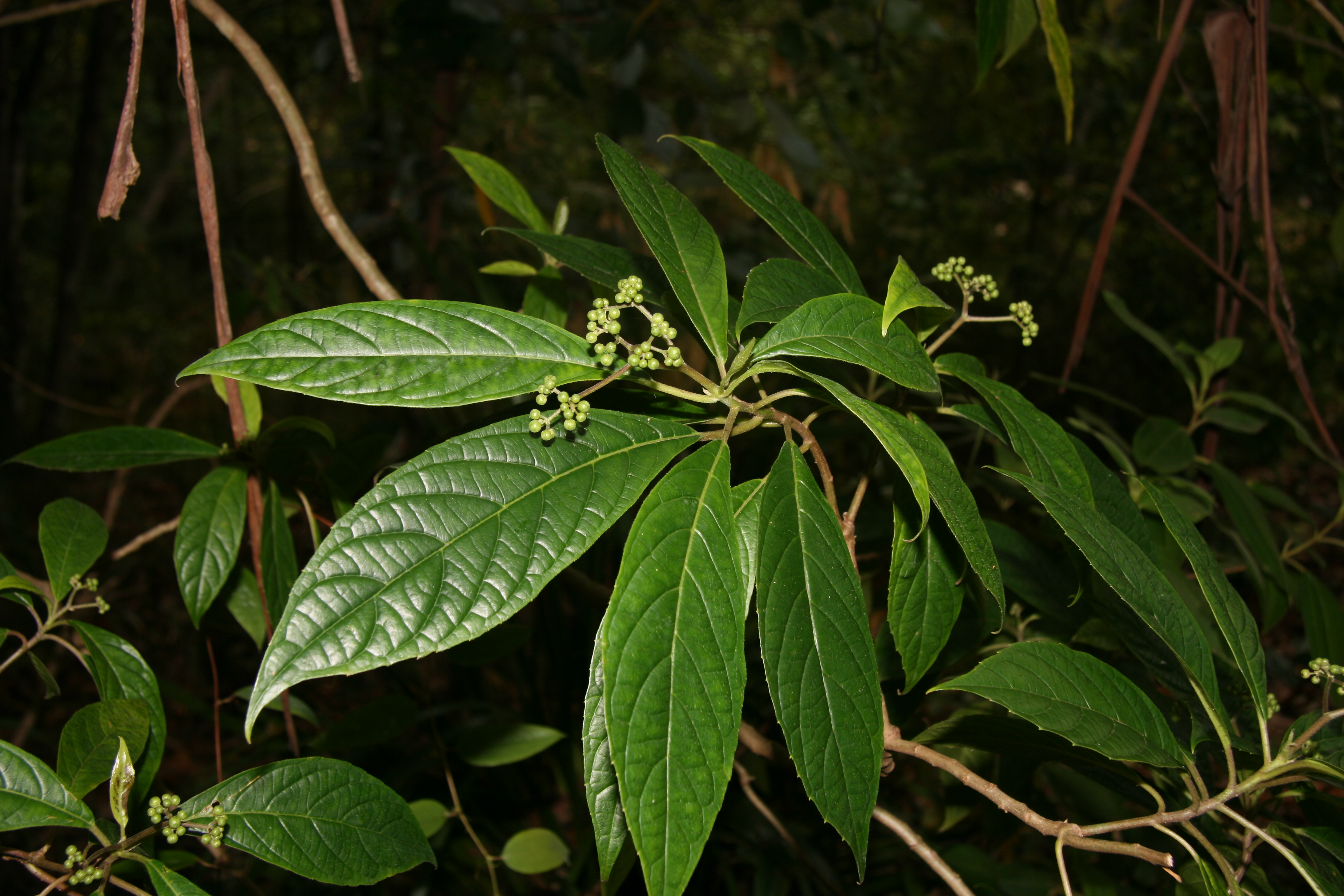 Abrophyllum ornans, Maroochy Regional Bushland Botanic Gardens